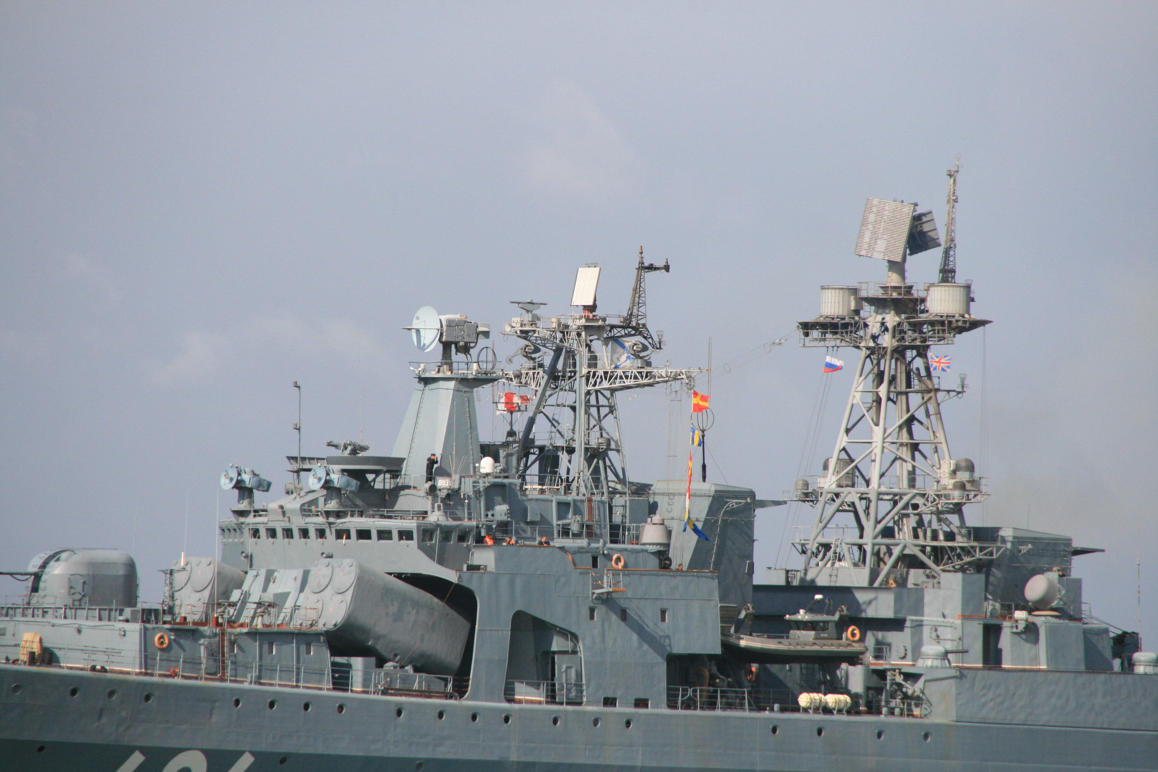 A Udaloy class destroyer of the Russian Federation Navy RFS Vitse Admiral Kulakov outward bound from Portsmouth Naval Base, UK, after a five-day visit, 28 August 2012. Vitse Admiral Kulakov has recently been deployed in the Indian Ocean on anti-piracy duty, and in late July 2012, led a flotilla of the Russian Northern Fleet to the Eastern Mediterranean to conduct naval drills, close to the Syrian coast. Image uploaded by me User:George.Hutchinson from a photograph taken by and supplied by Brian Burnell. Wikipedia editors are reminded that the copyright remains with the photographer, and that the terms of the Creative Commons licence; that allow editors to reuse this image apply to Wikipedia editors also, as they do to other re-users of this image. Breaches of the licence terms are not only unlawful, but are also antisocial, in that breaches discourage photographers from making their images freely available to everyone without payment. Wikipedia re-users are also reminded of the license terms that derivatives of this image should not imply that the adaptation is endorsed or approved by the author or copyright holder. Neither should derivatives be presented as the creation of the author or copyright holder, while clearly stating that the adaptation is a derivative of the original. Attribution online should be in this format Brian Burnell. On the printed page, a simpler form is acceptable - example: "Image: Brian Burnell". Non-Wikipedia users are requested to advise Brian Burnell of its use other than on Wikipedia.